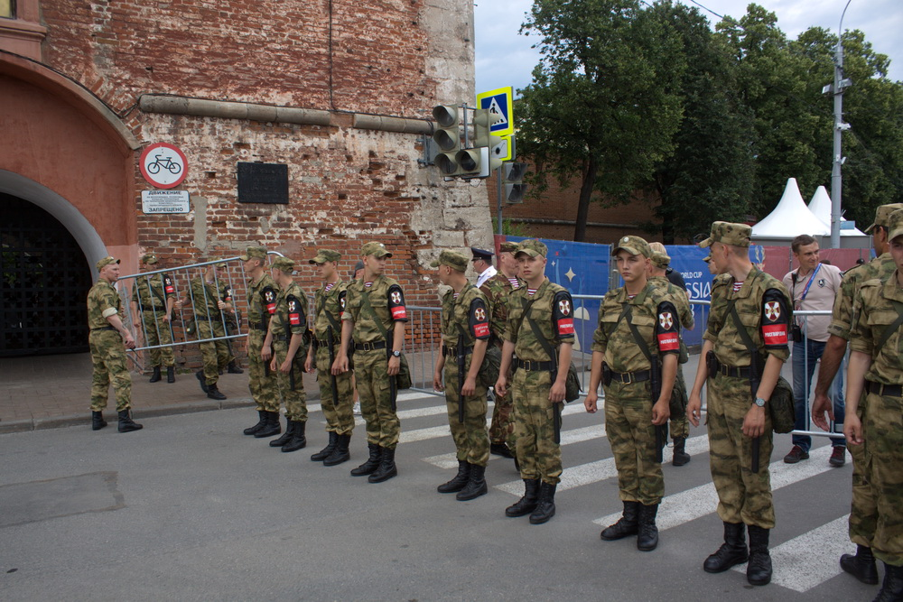 Soldiers of the National Guard of Russia in cordon